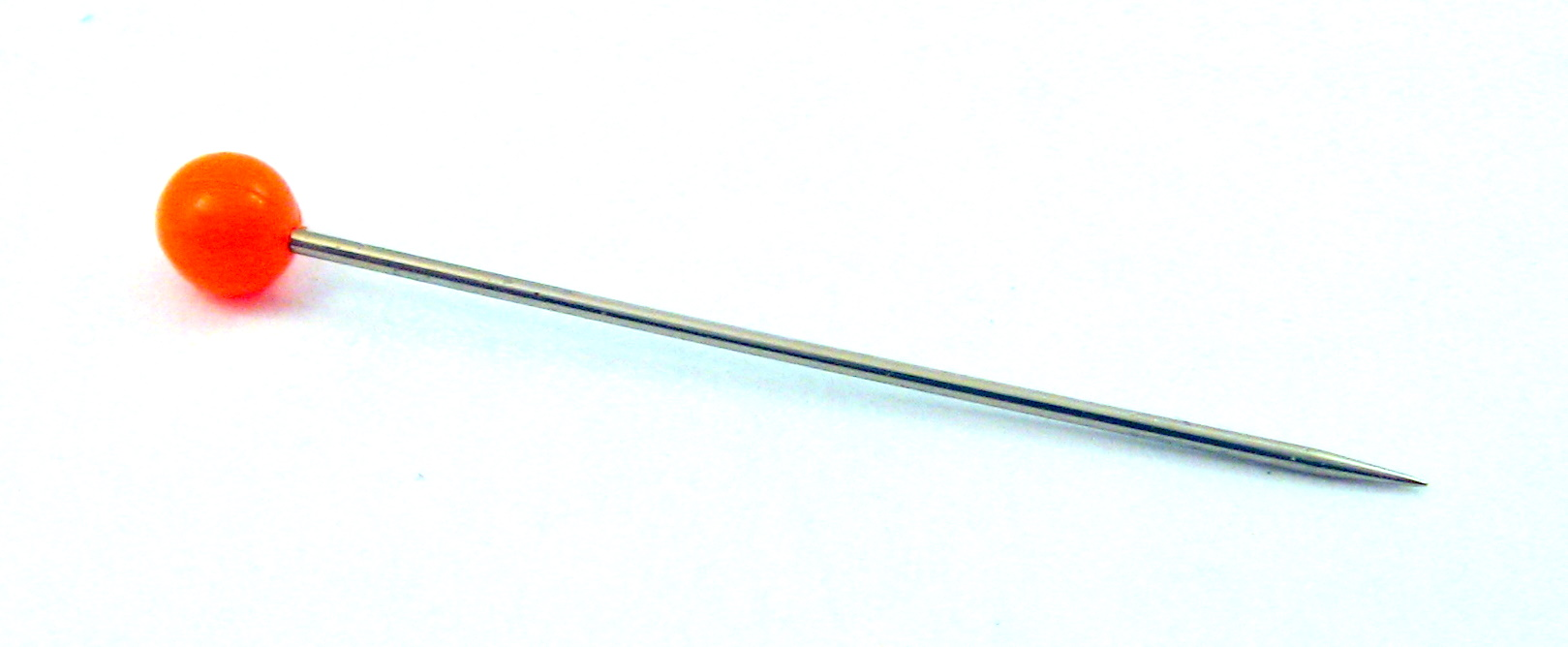 A pin